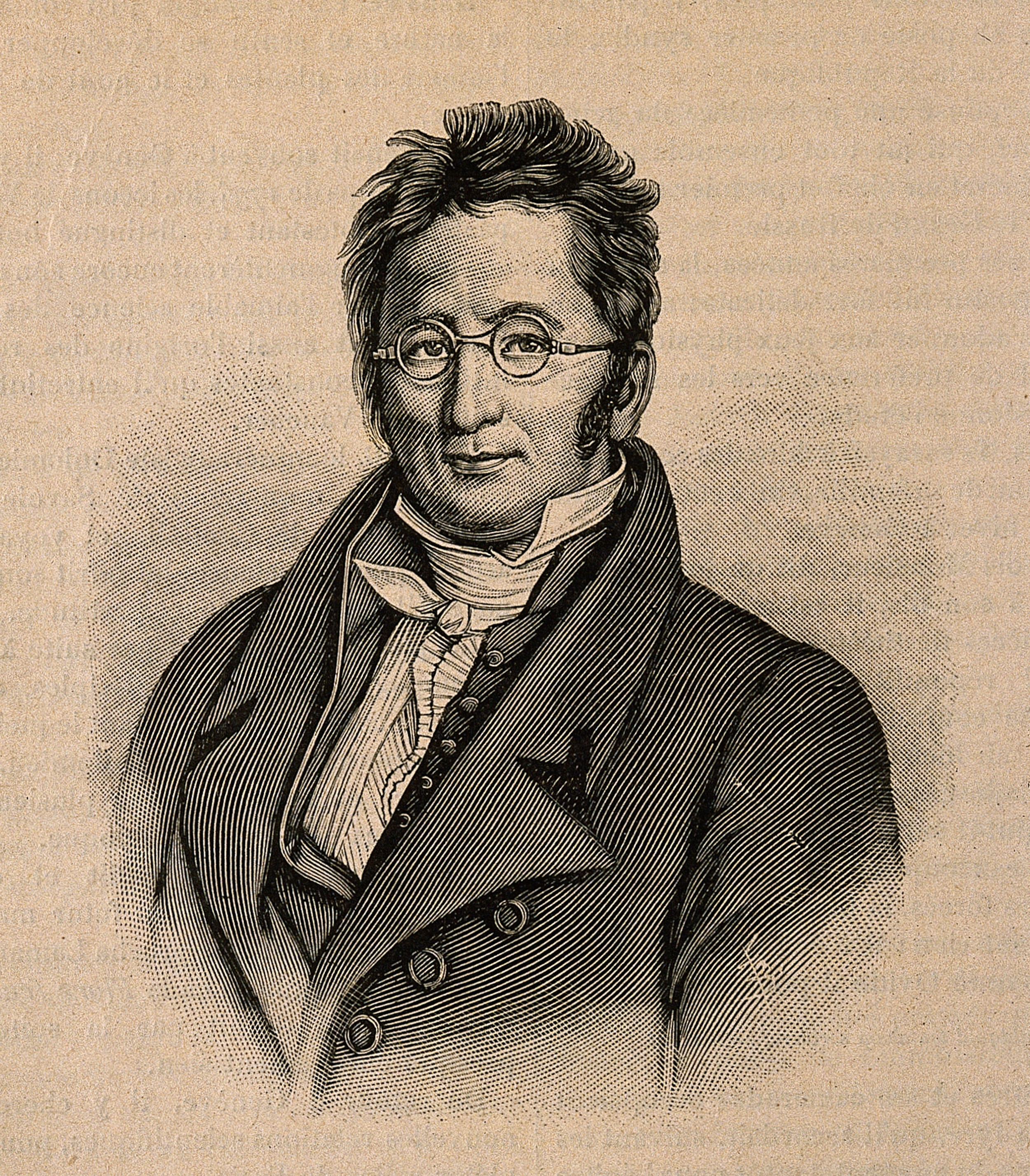 Augustin Pyramus de Candolle. Wood engraving after A. Tardieu. Iconographic Collections Keywords: portrait prints; Ambroise Tardieu; Augustin Pyramus de Candolle; wood engravings; candolle, augustin pyramus de